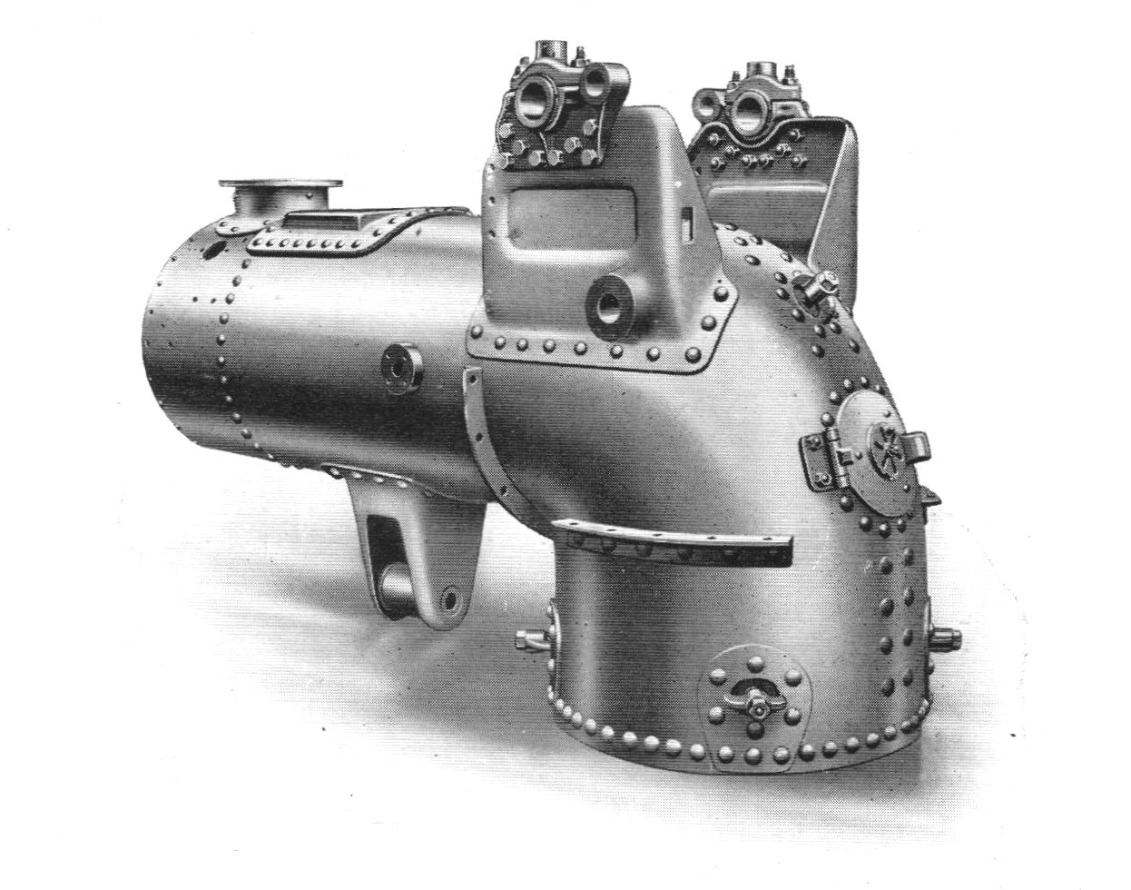 Fig. 367 Steam wagon boiler of the Ransome patent stayless type Designed to combine the efficiency of the locomotive type with the special advantages of the circular construction. Its working pressure is 225 lbs. per square inch.